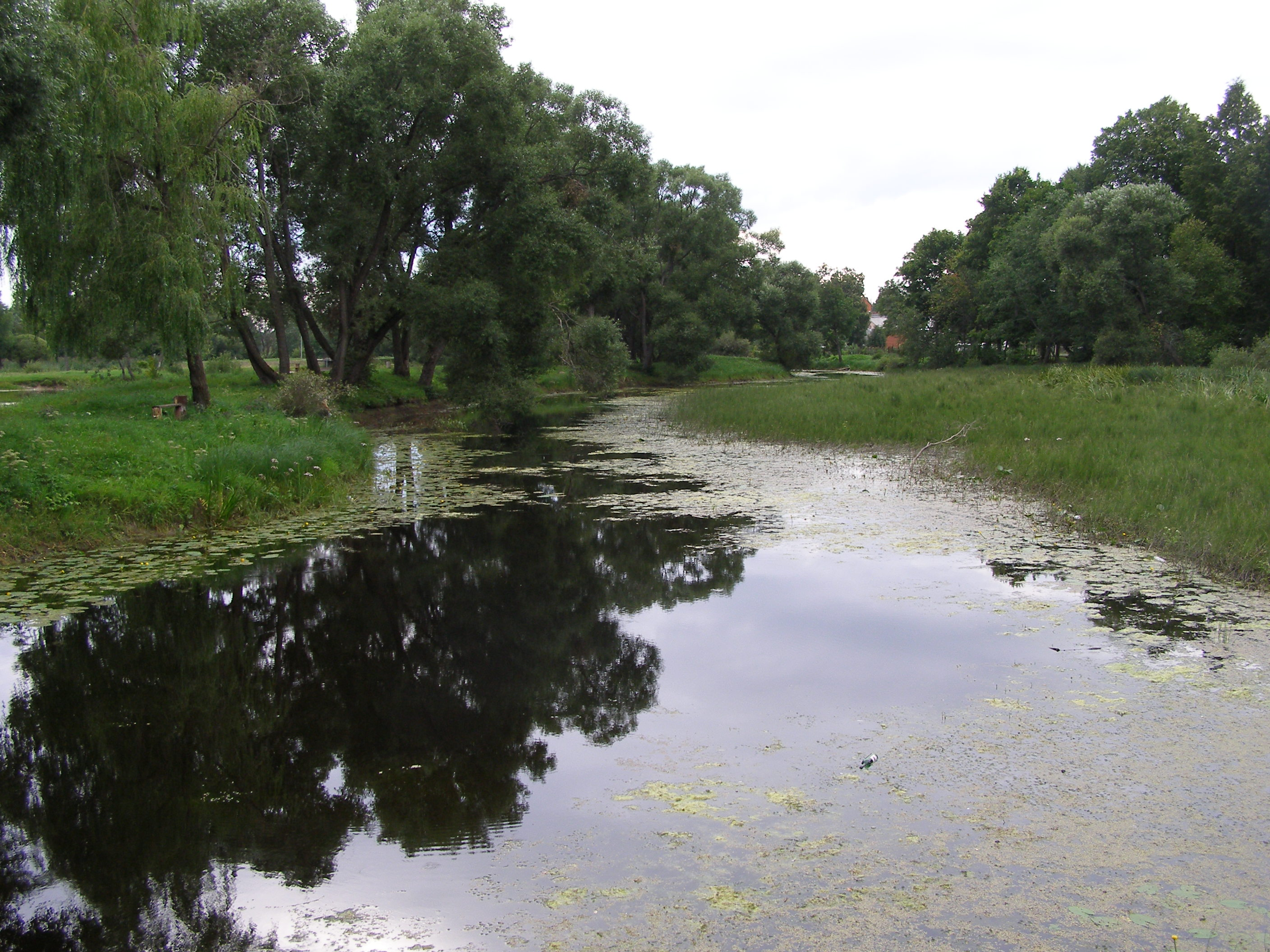 The Preiļupe River near town Preiļi (Latvia) Беларуская (тарашкевіца): Латвія: рака Прэйльупэ ў межах гораду Прэйлі